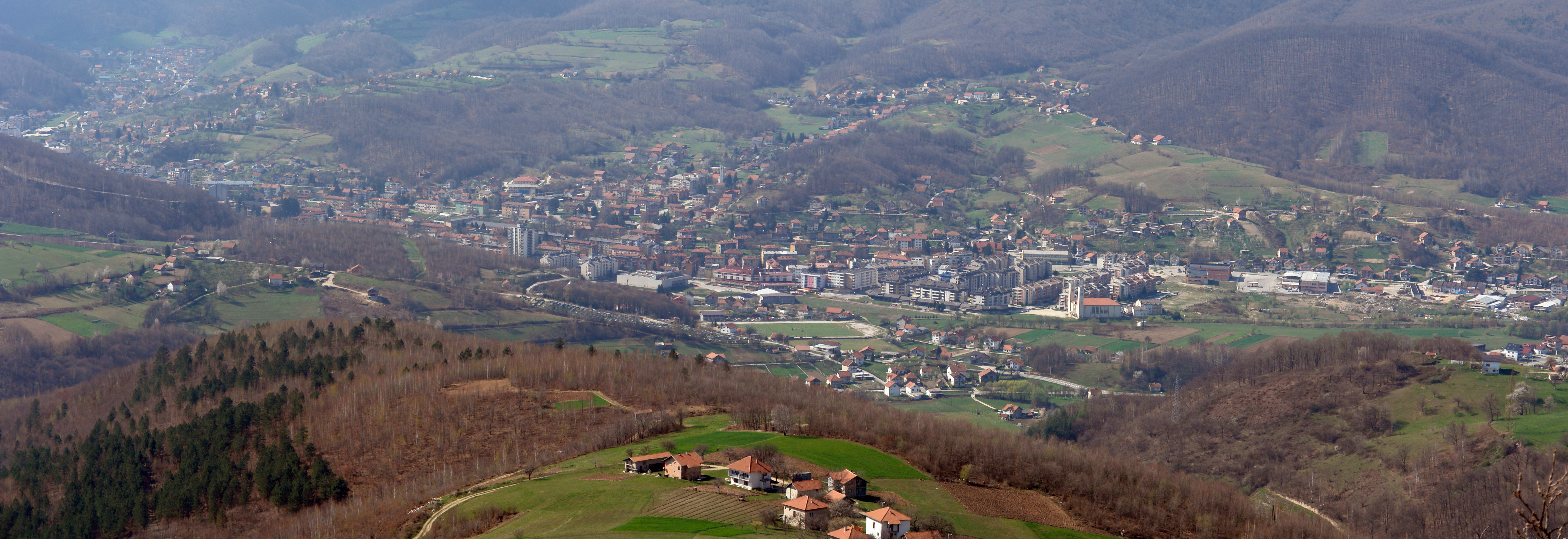 Panorama of Novi Travnik